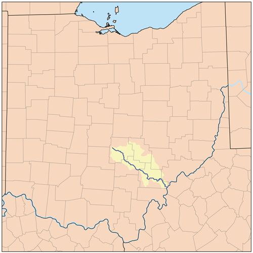 Map of the Hocking River watershed.